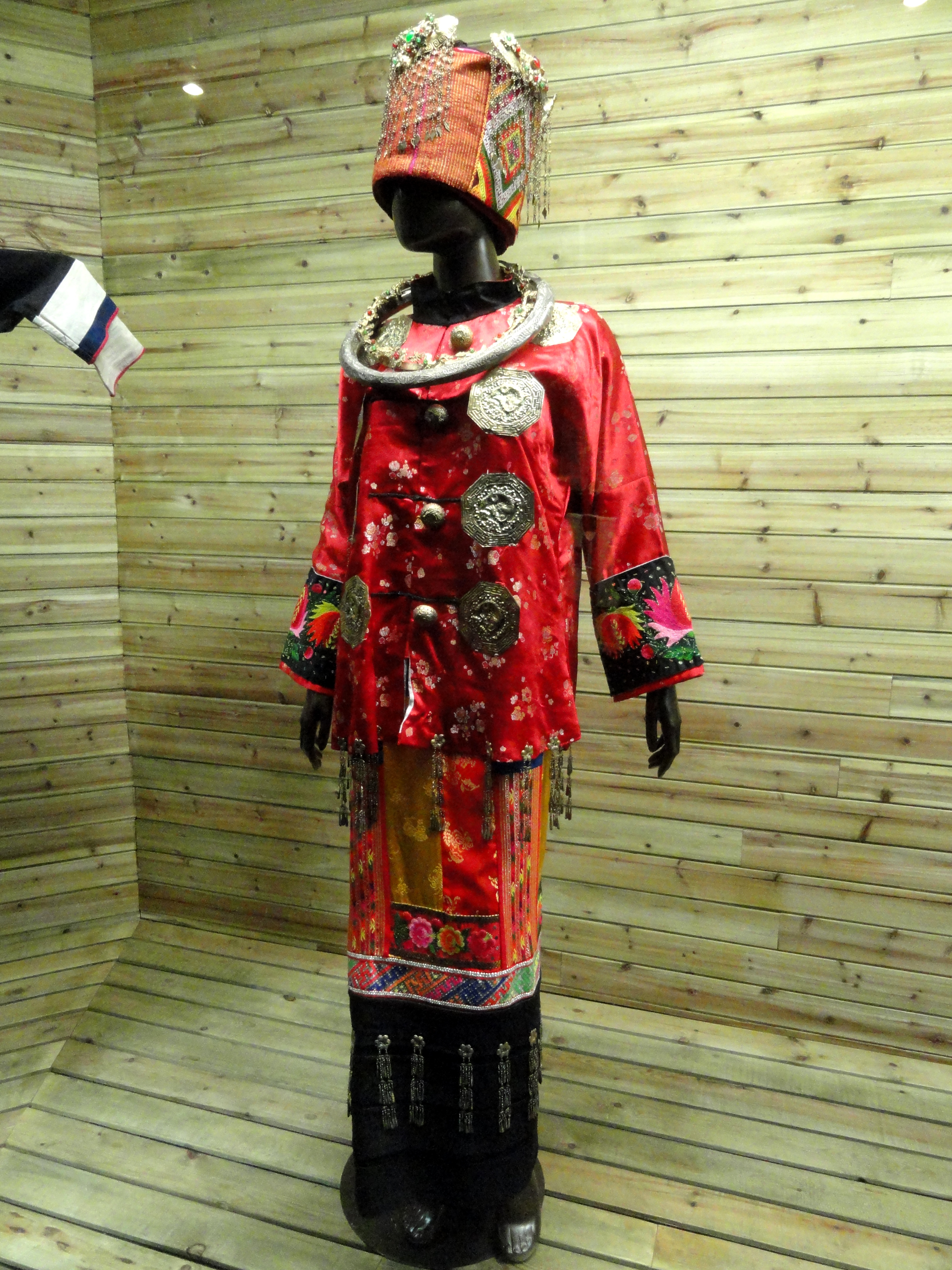 Dai woman wedding clothes. Clothing exhibited in the Yunnan Nationalities Museum, Kunming, Yunnan, China.